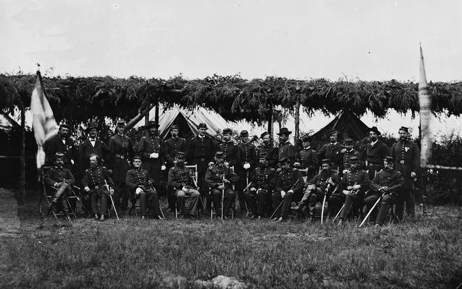 Portrait of Maj. Gen. George Meade, officer of the Federal Army, and staff, vicinity of Washington, D.C., June 1865.